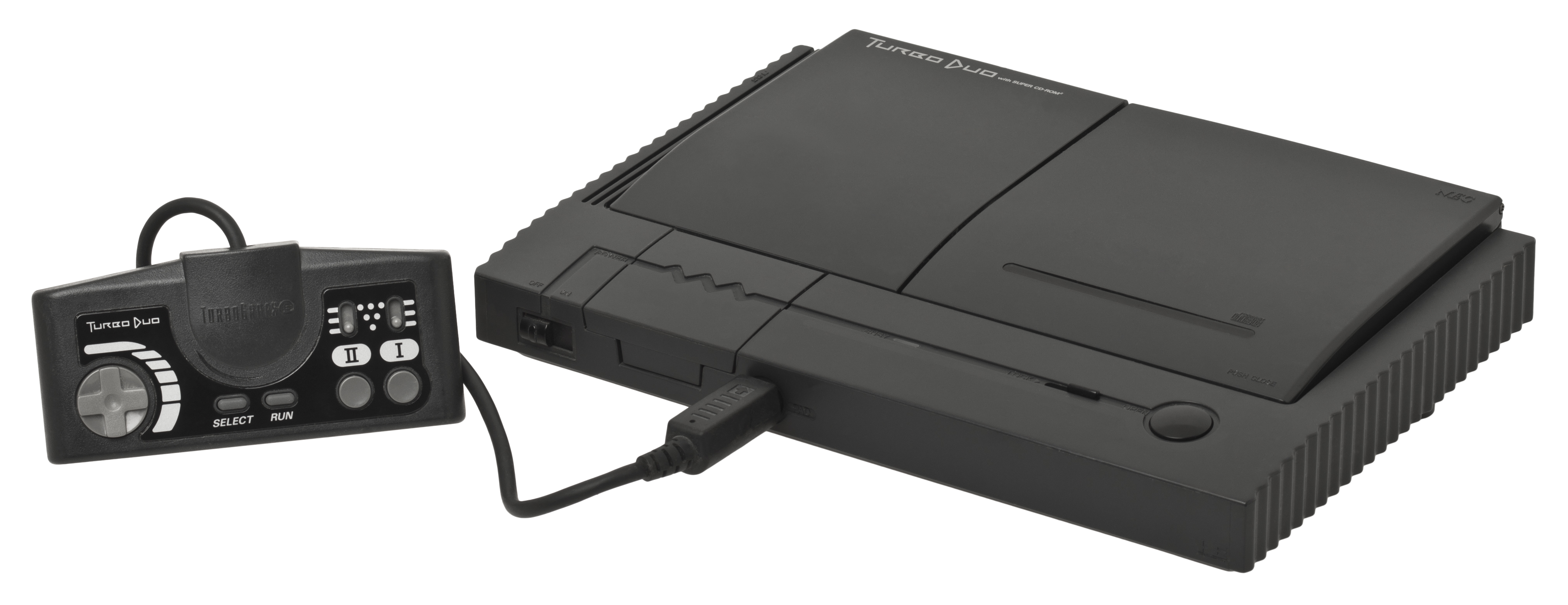 The TurboDuo and controller. A video game console made by NEC, this is the combination of TurboGrafx-16 and TurboGrafx-CD consoles in one machine.